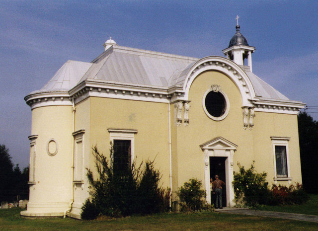 All Saints, Thorney Hill Grade 1 listed building erected in 1906.